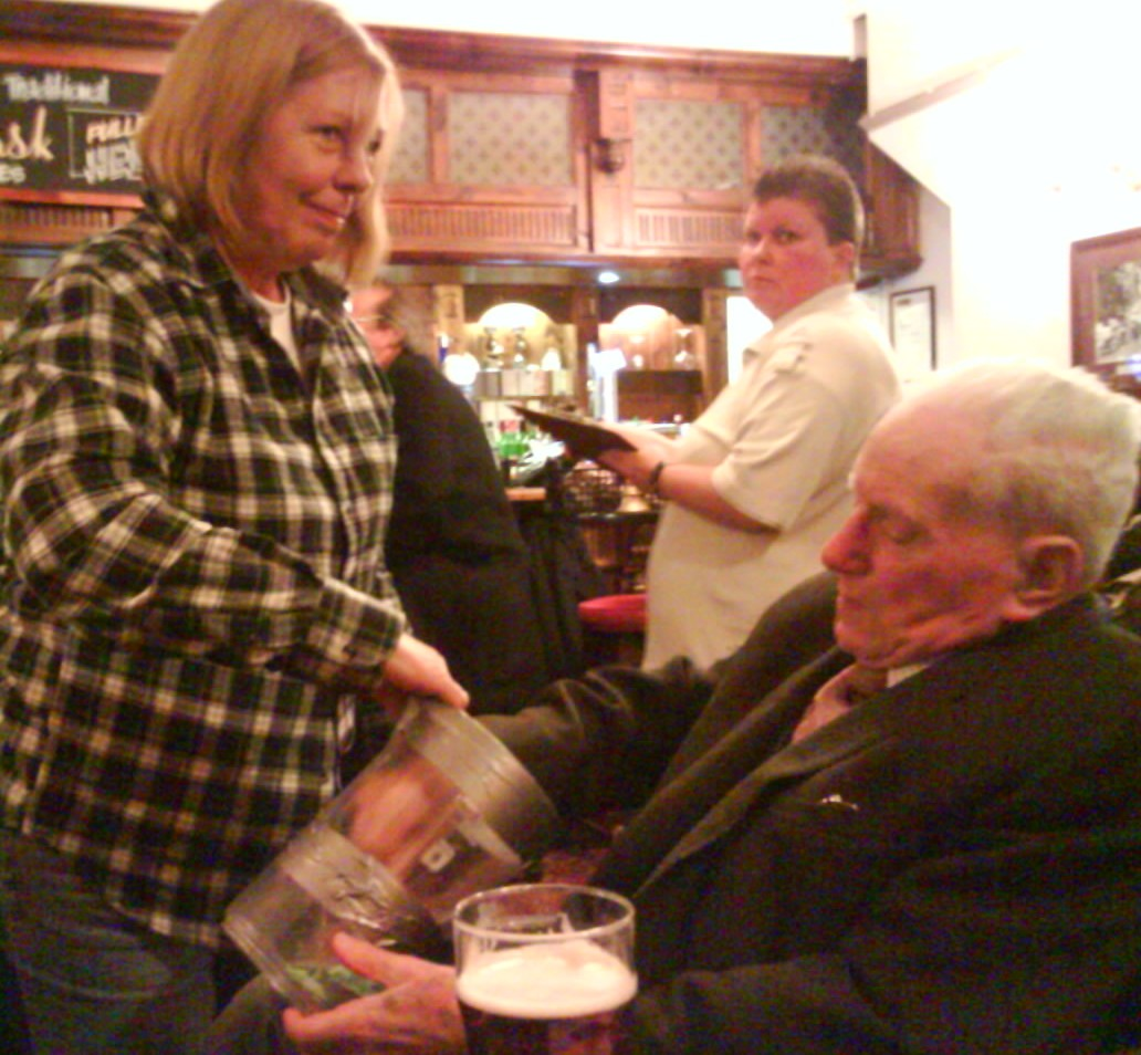 Meat draw at the Duke of Monmouth pub, Abingdon Road, Oxford